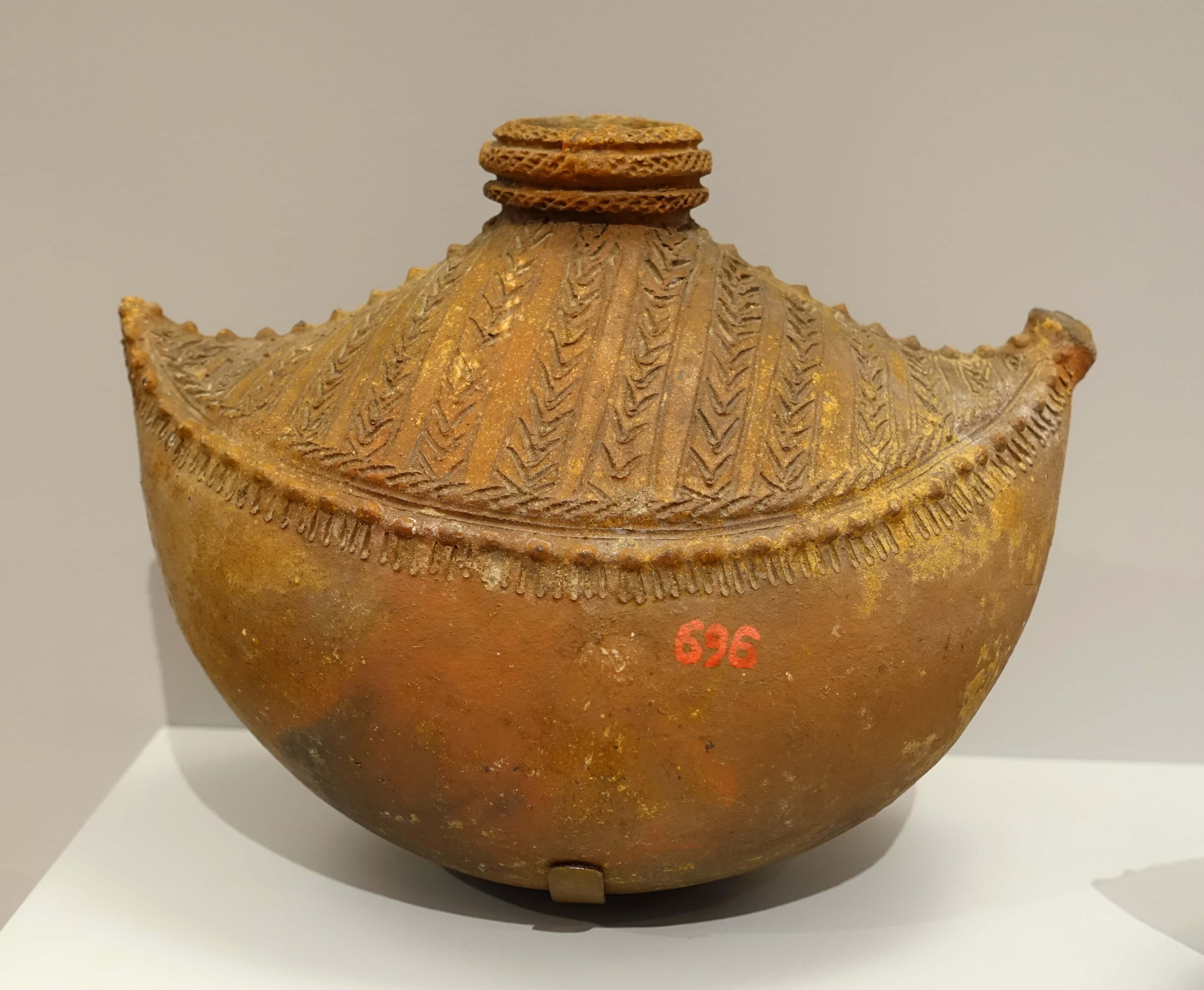 Exhibit from the Pacific Collection, Peabody Museum, Harvard University, Cambridge, Massachusetts, USA. Photography was permitted without restriction; exhibit is old enough so that it is in the public domain.